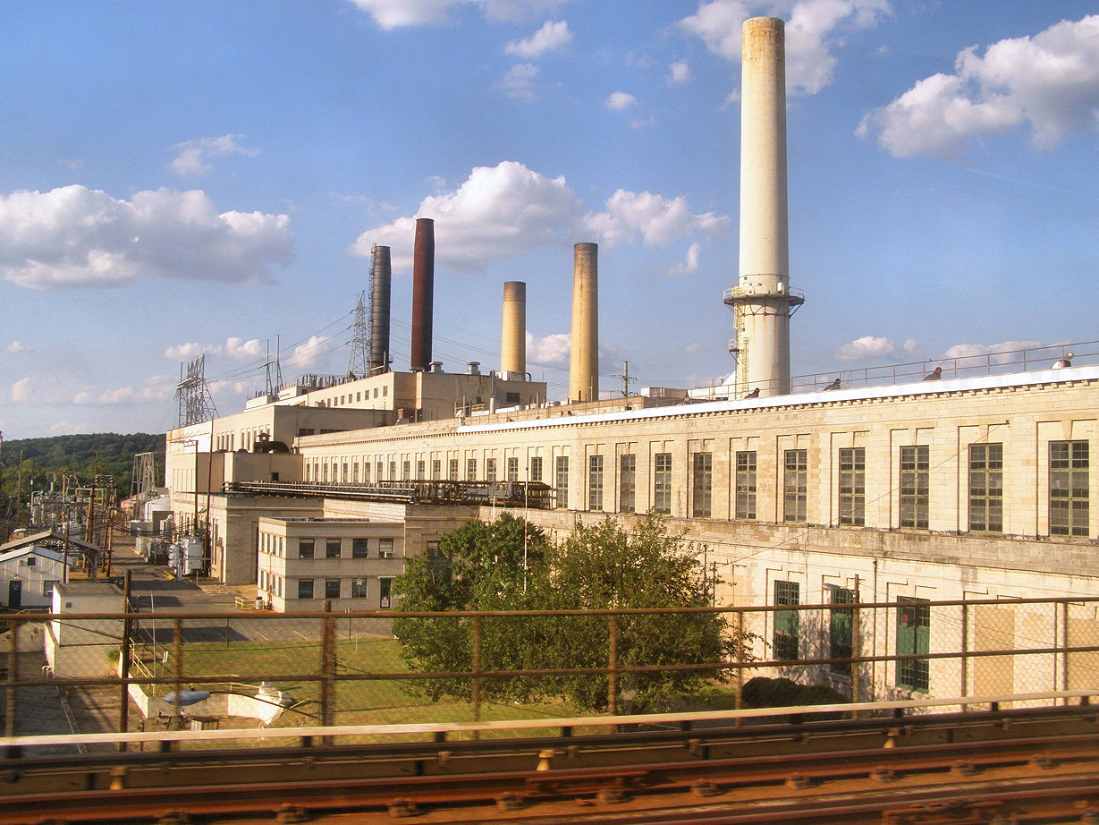 Pepco Benning Road power station in Washington, D.C., as seen from the Washington Metro tracks. The plant supplied power via a rotary frequency changer to the Pennsylvania Railroad (and successor lines) from 1935 until 1986. Pepco permanently closed the power station in 2014.